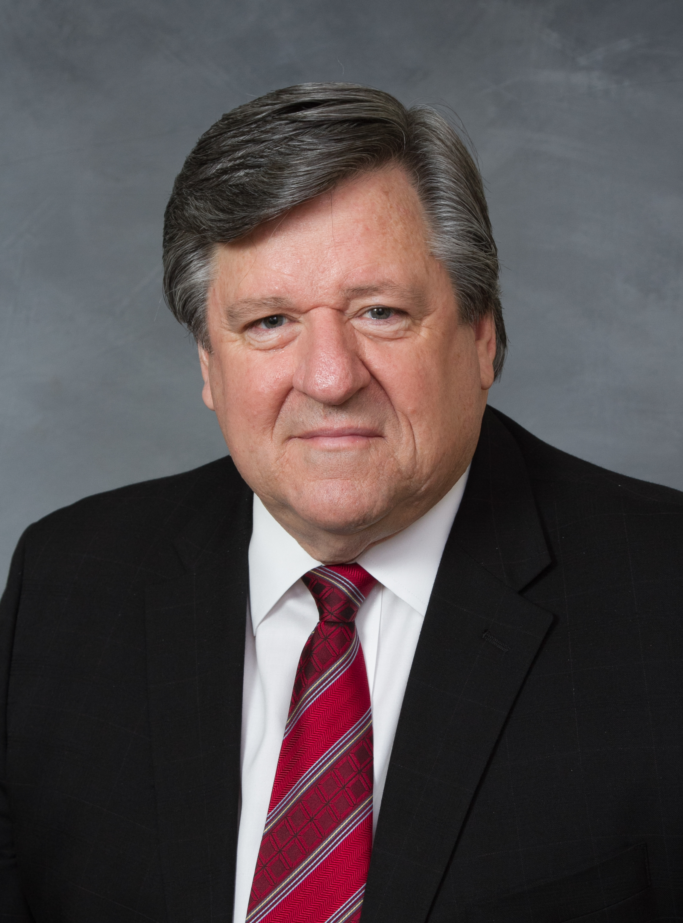 North Carolina State Senator Martin Nesbitt.